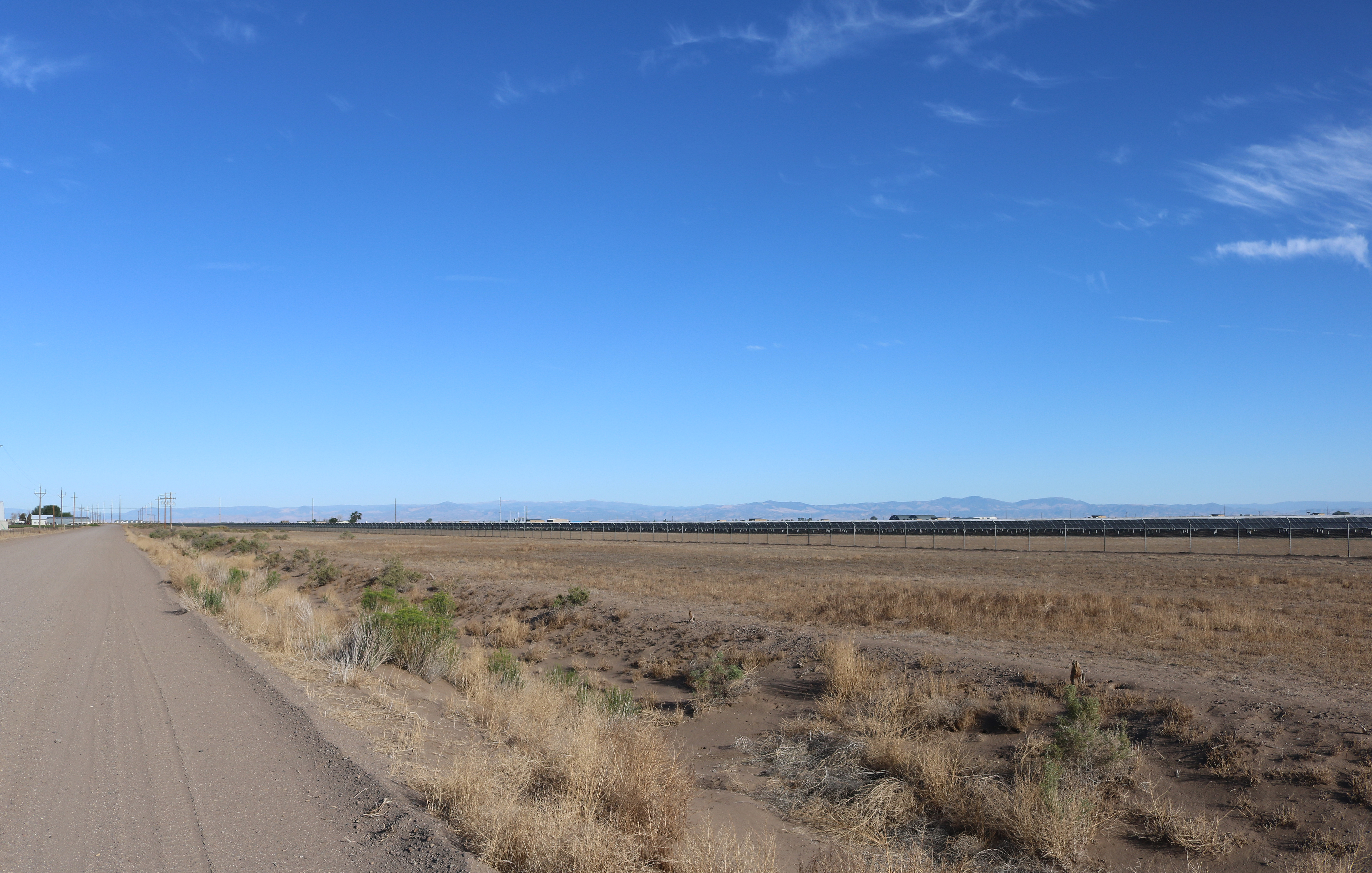 A view of part of the San Luis Valley Solar Ranch. The road is Lane 8 North